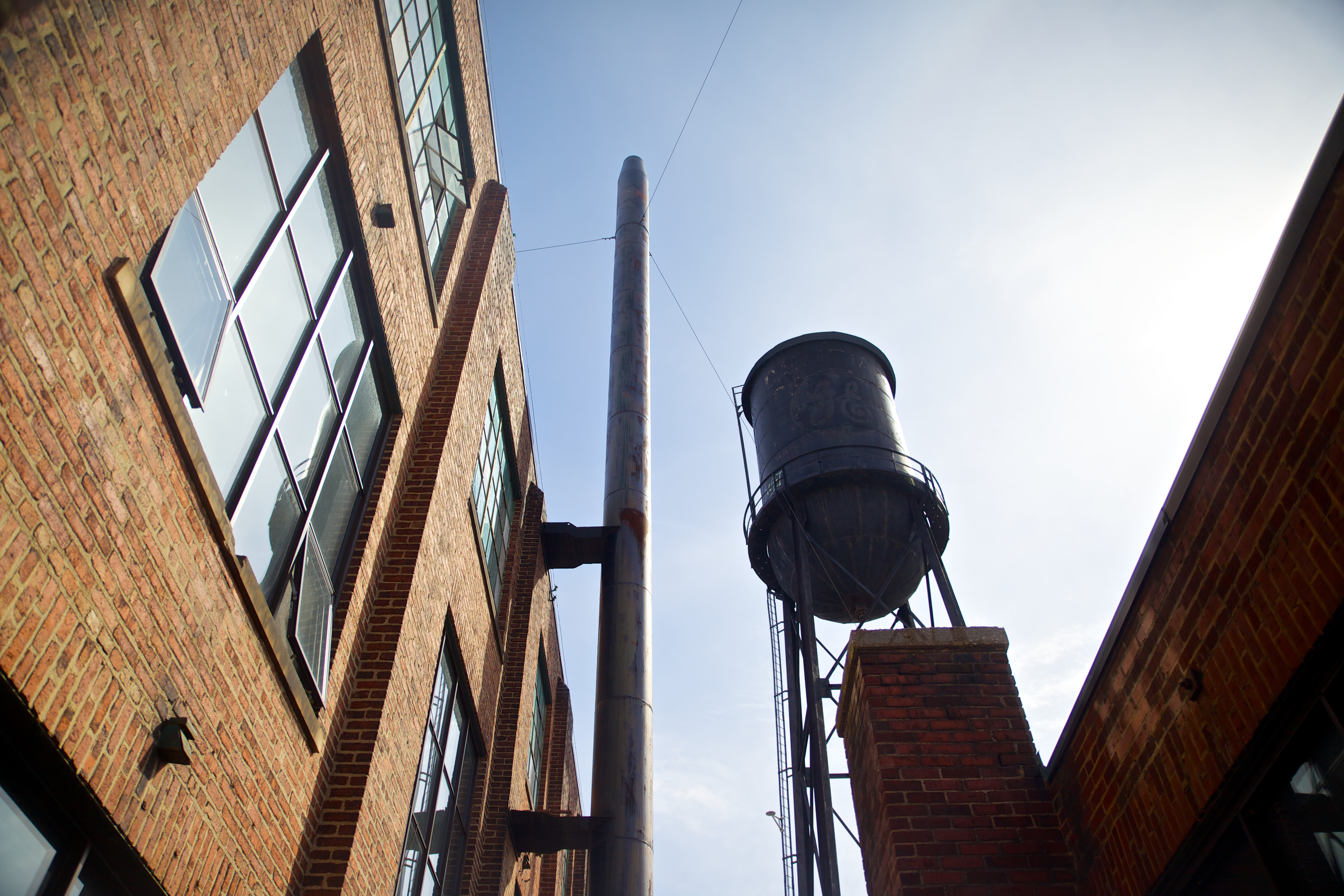 Photo credit: Jason Cook